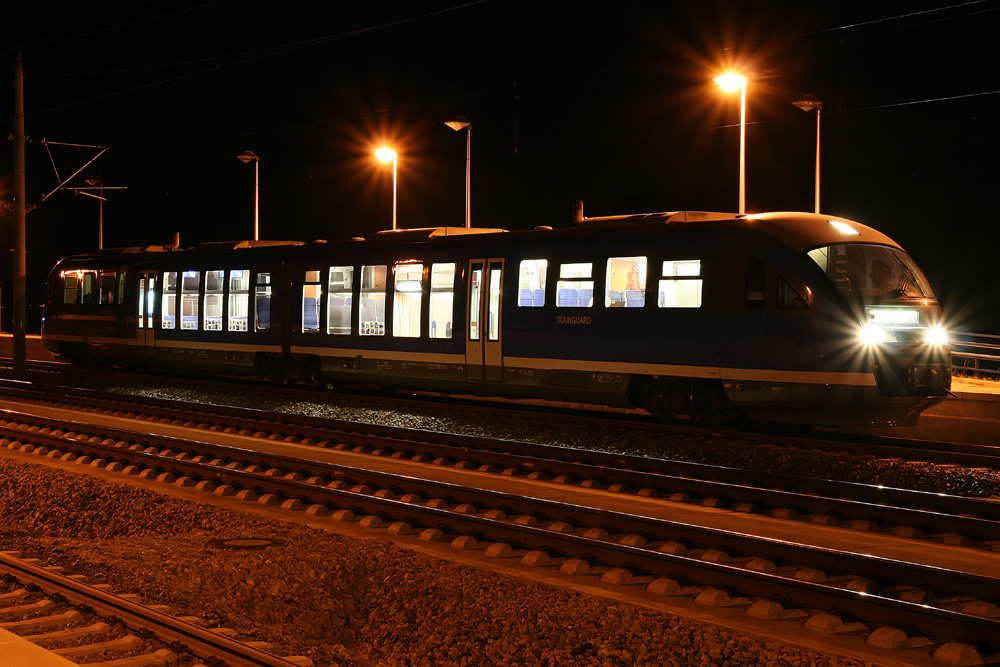 The so-called Siemens Trainguard is a Desiro rail vehicle designed for ETCS tests. This picture shows the unit on its first run on the Nuremberg-Ingolstadt high-speed train, in the railway station of Kinding.